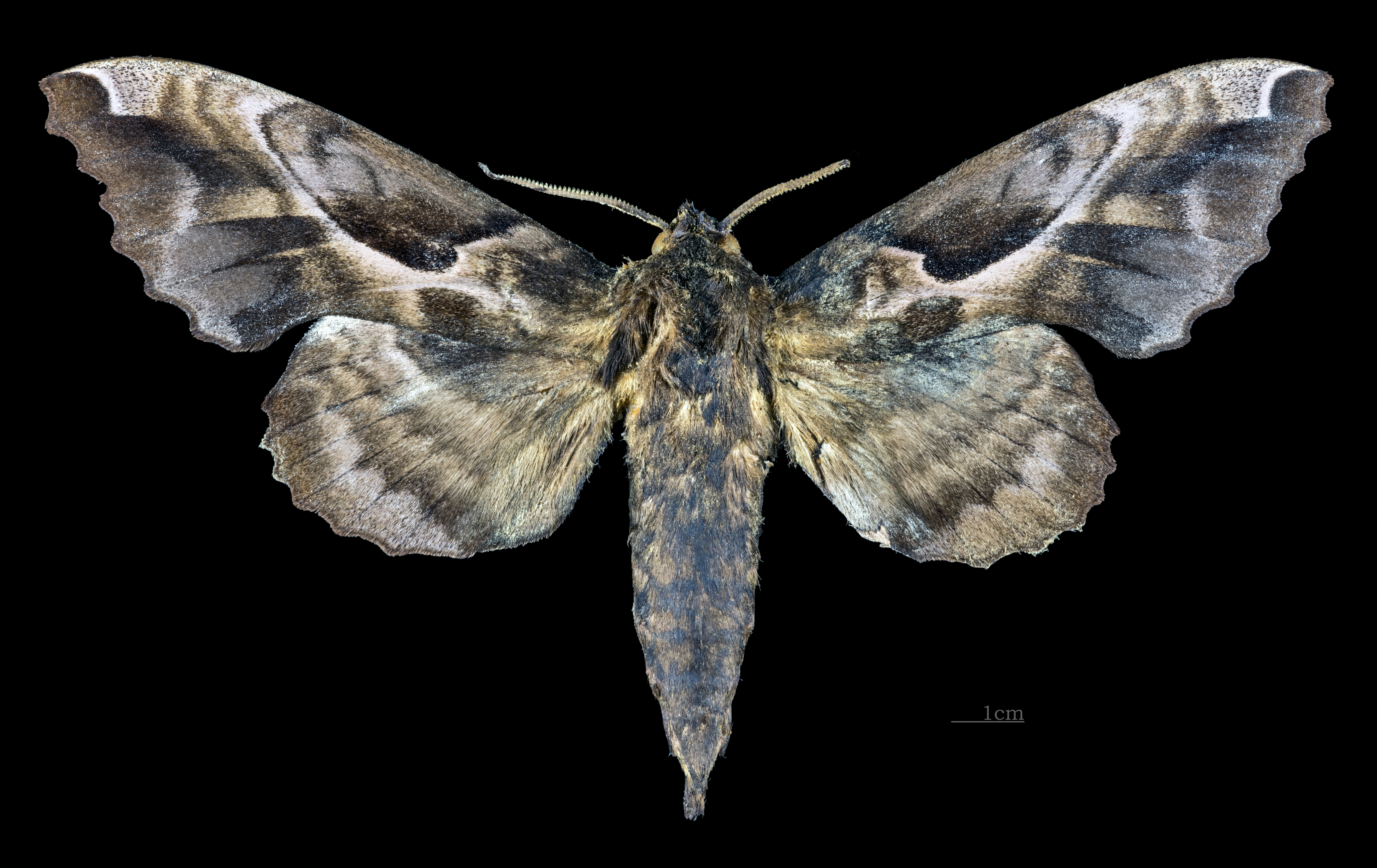 Phyllosphingia dissimilis - Dorsal side Collection of the Mathematician Laurent Schwartz